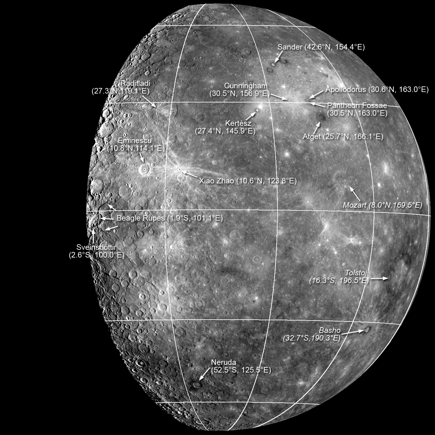 The International Astronomical Union (IAU) recently approved new names for features on Mercury that were all seen for the first time in images taken by MESSENGER during the spacecraft’s first flyby of the planet. Read the full press release for additional details about the naming process and the origin of the names, and visit the U.S. Geological Survey website, the Gazetteer of Planetary Nomenclature, to learn about all of the named planetary features in the Solar System. This image, produced by mosaicking many Narrow Angle Camera (NAC) images together, shows the locations of the newly named features, along with the craters Basho, Mozart, and Tolstoj, first seen by the Mariner 10 mission. Close-up views of many of these features are available in the MESSENGER website image gallery. In particular, look at these previous releases for NAC high-resolution images of Apollodorus, Beagle Rupes, Eminescu, Mozart, Neruda, Pantheon Fossae, Raditladi, and Sander.